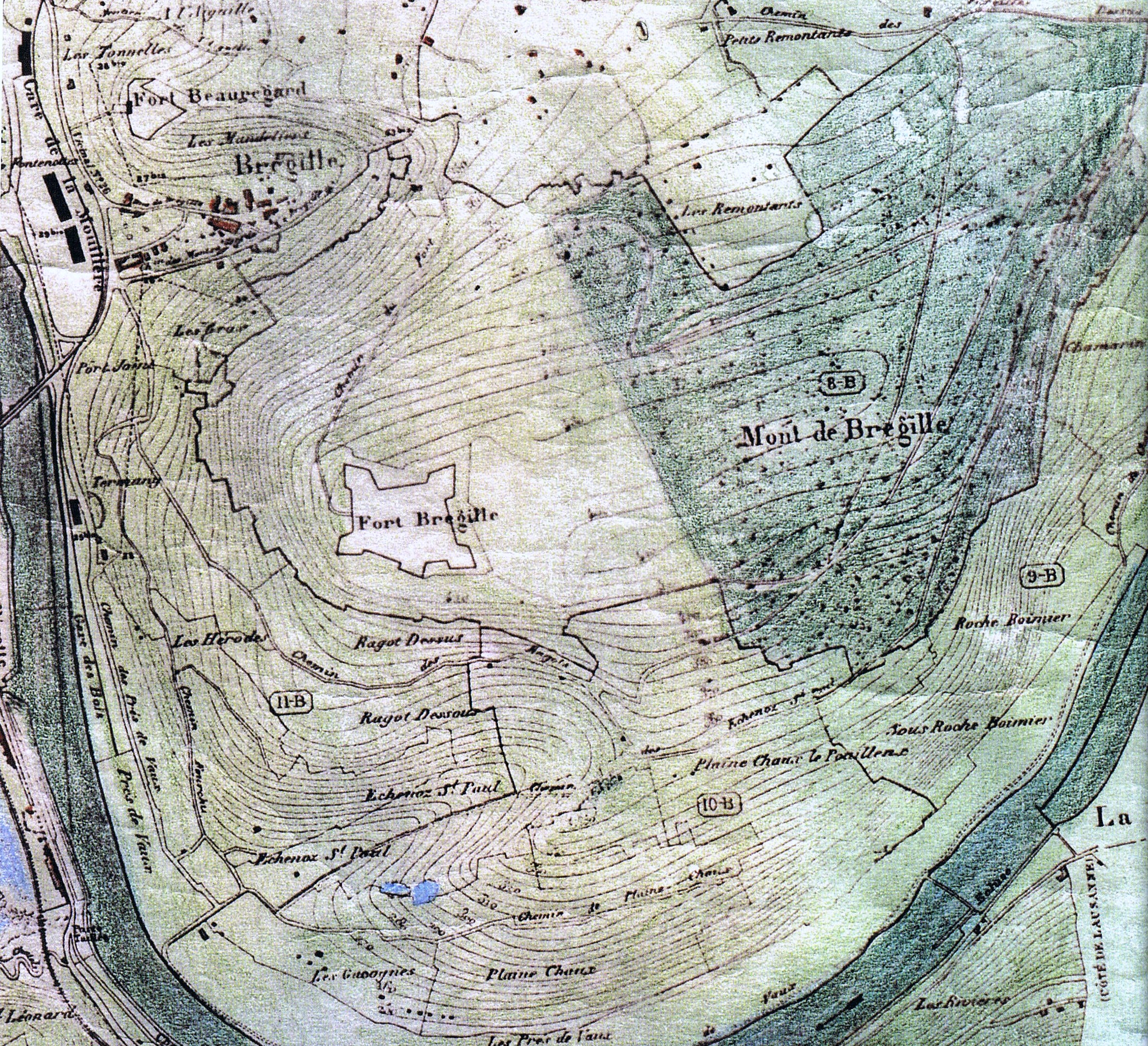 Topographic map of Bregille (Besançon,Doubs) in the 19th century.